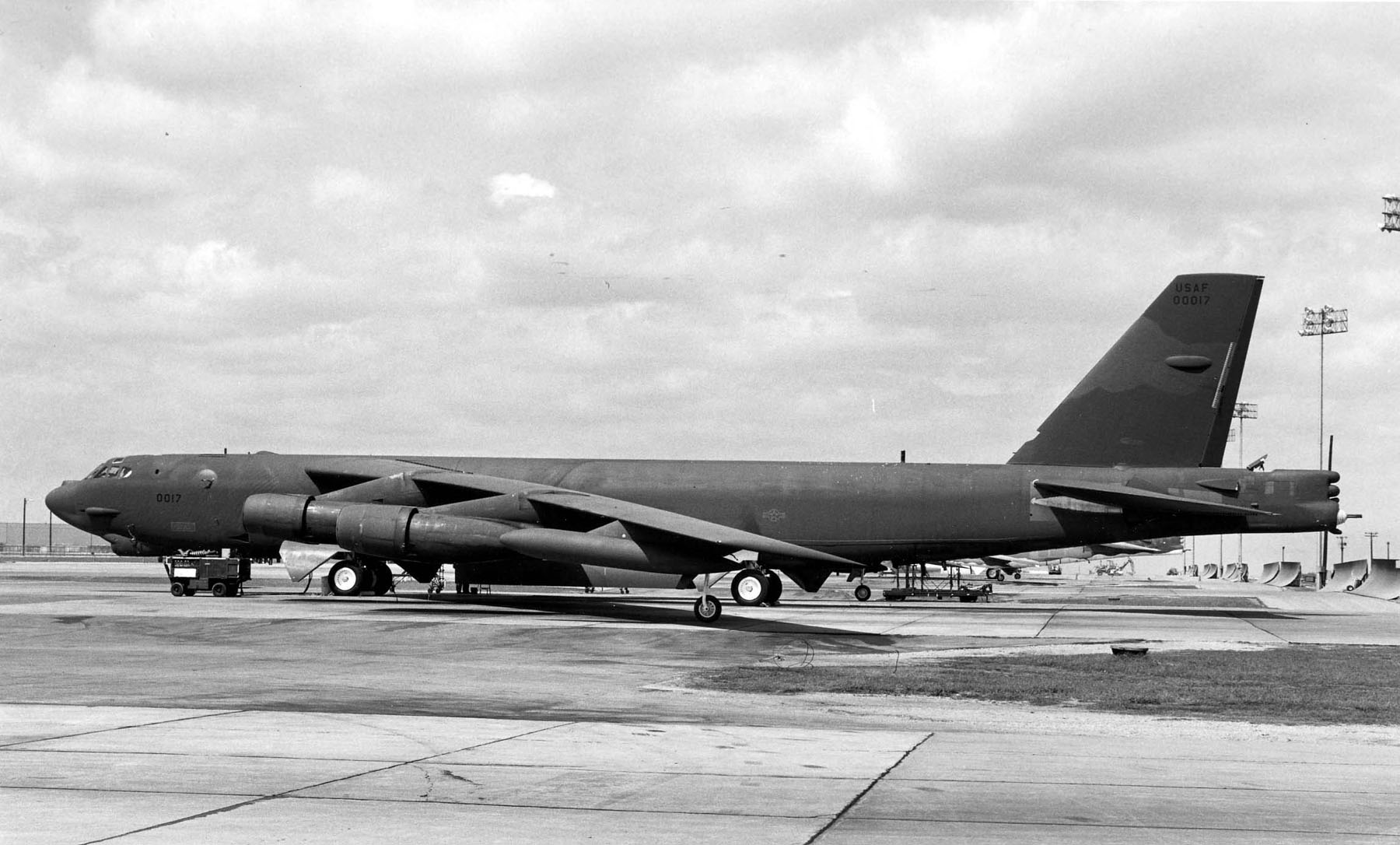 Boeing B-52H-140-BW (SN 60-0017)